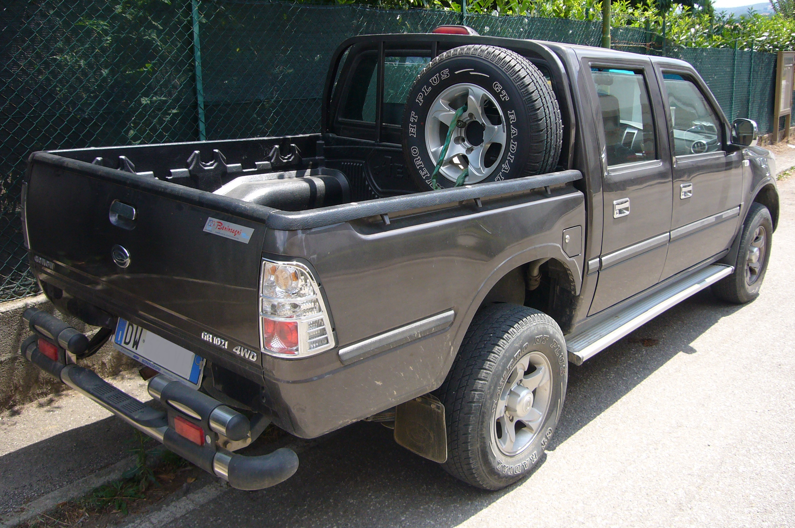 Gonow GA200 (Troy) in Tuscany, Italy